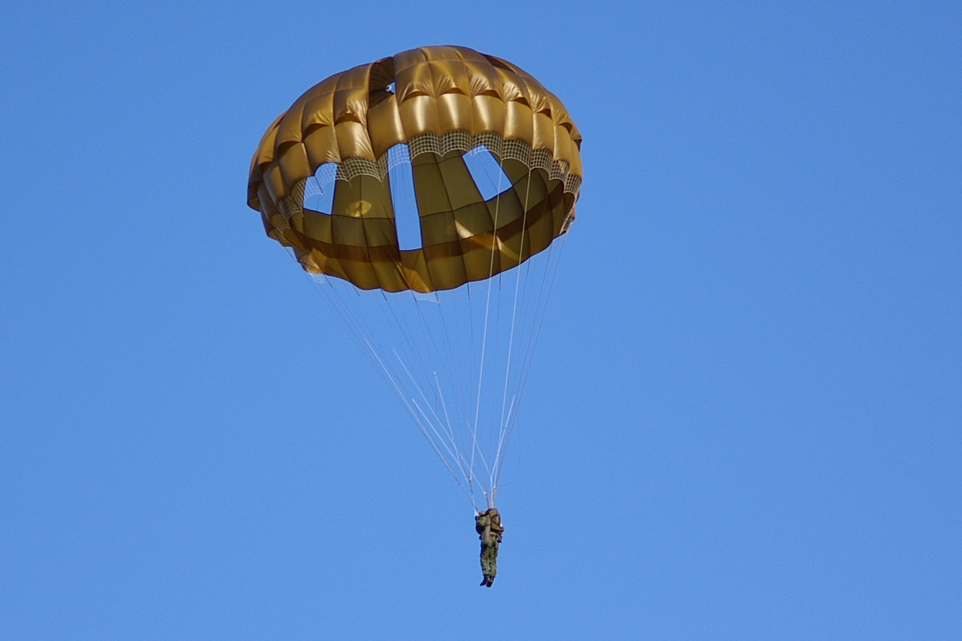 JGSDF parachute(696MI).Taken by Los688,in Narashino,Japan,at 07-Jan-2007,JGSDF 1st Airborne Brigade 2007 first drop manuver.PD-self 陸上自衛隊、第1空挺団の降下。隊内呼称、空挺傘696MI。